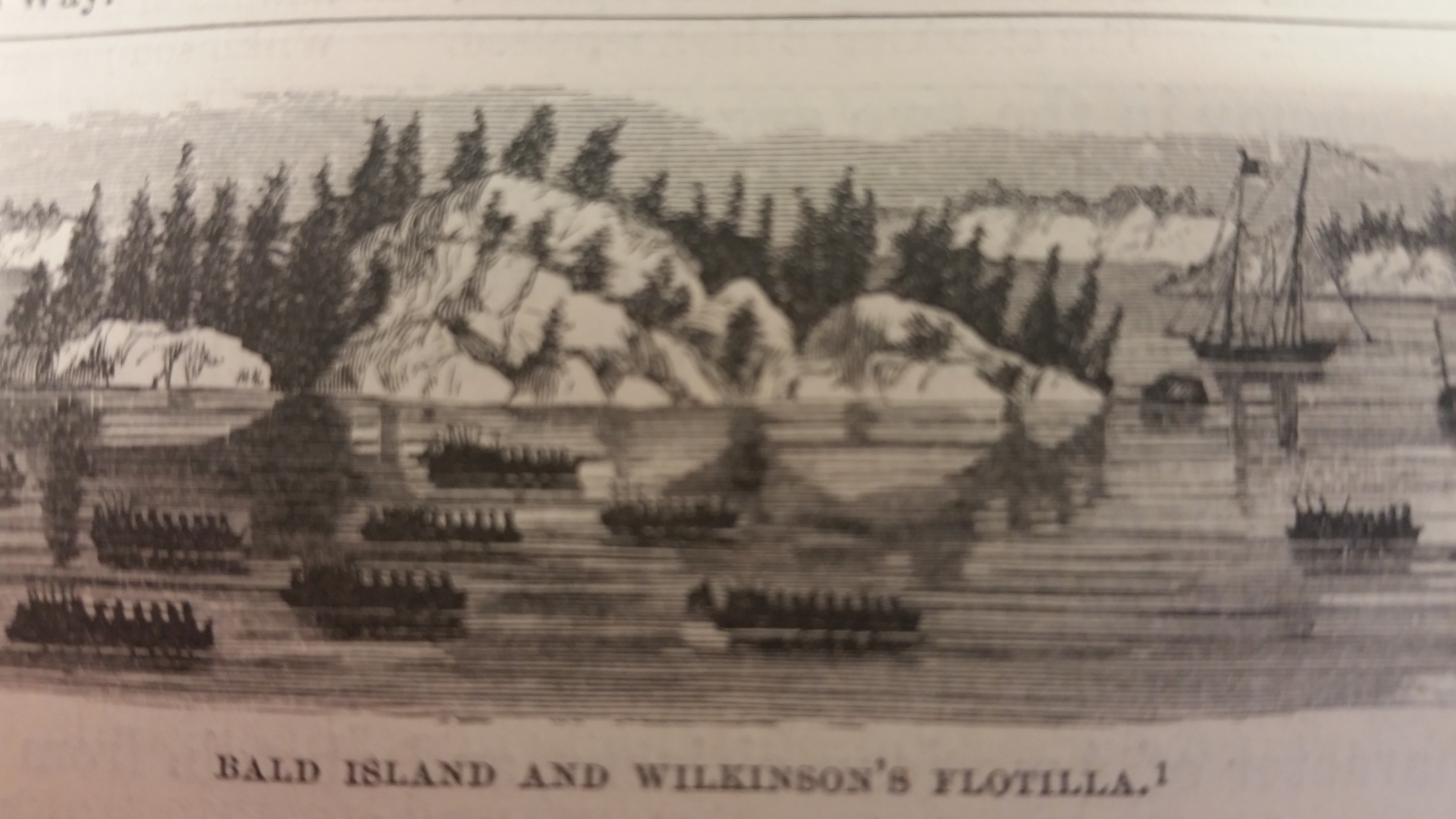 Battle of Chrysler's Farm